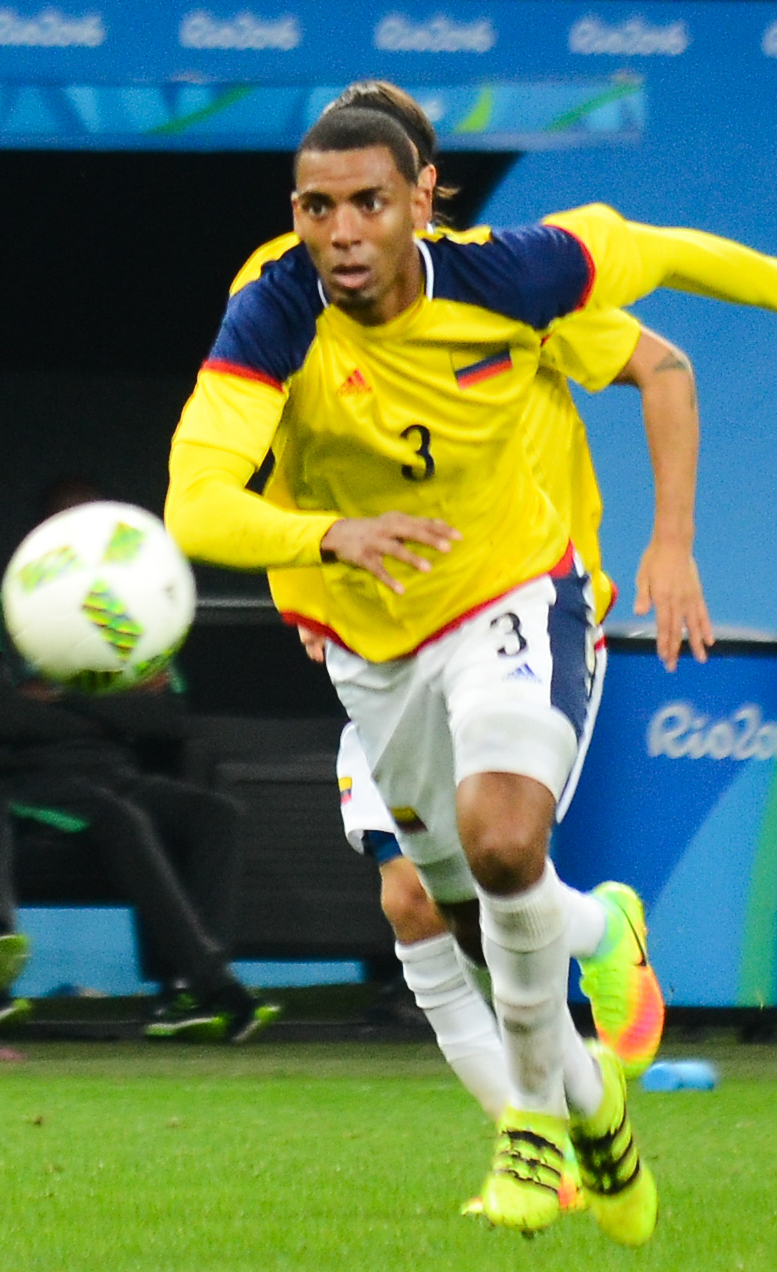 São Paulo - Colômbia vence a Nigéria por 2x0 na Arena Corinthians (Rovena Rosa/Agência Brasil)